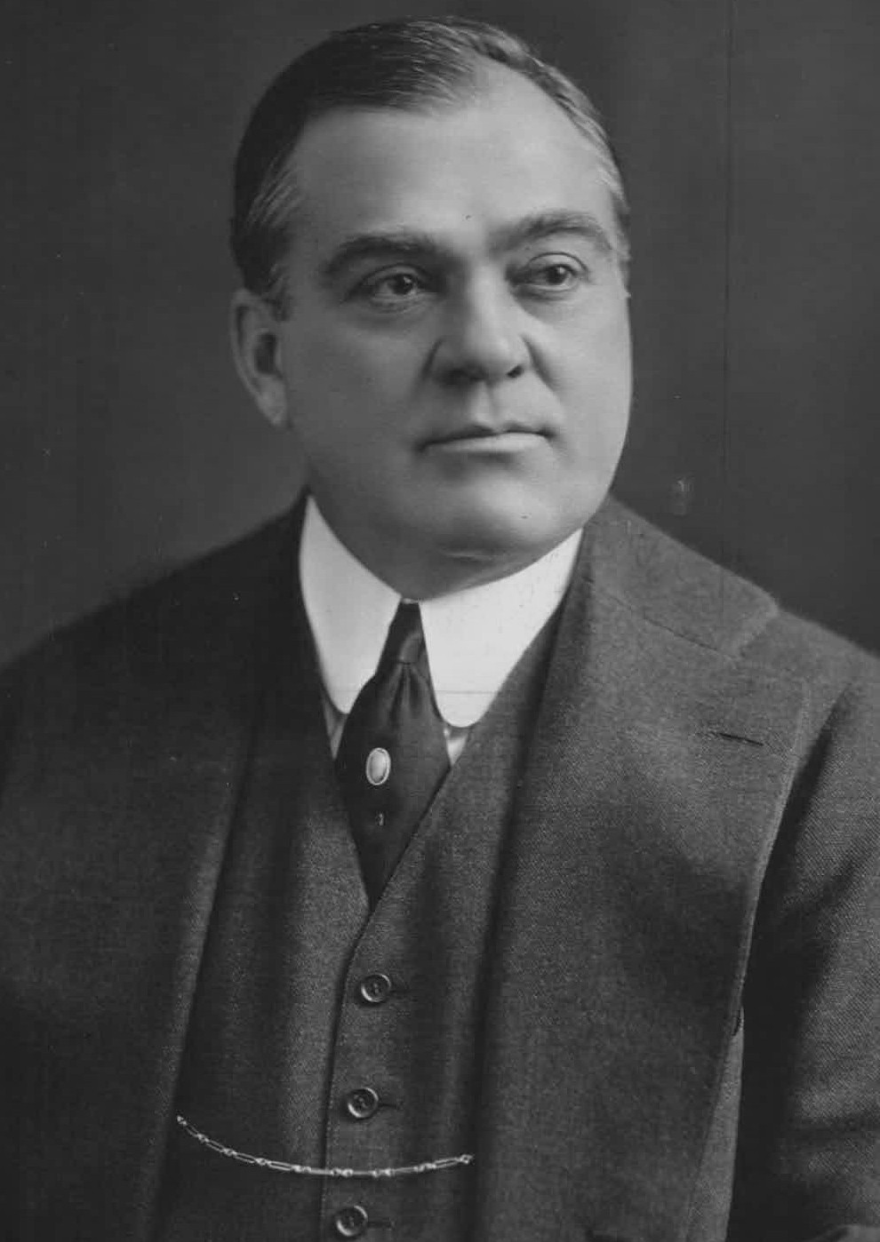 Professional baseball manager and executive Ed Barrow